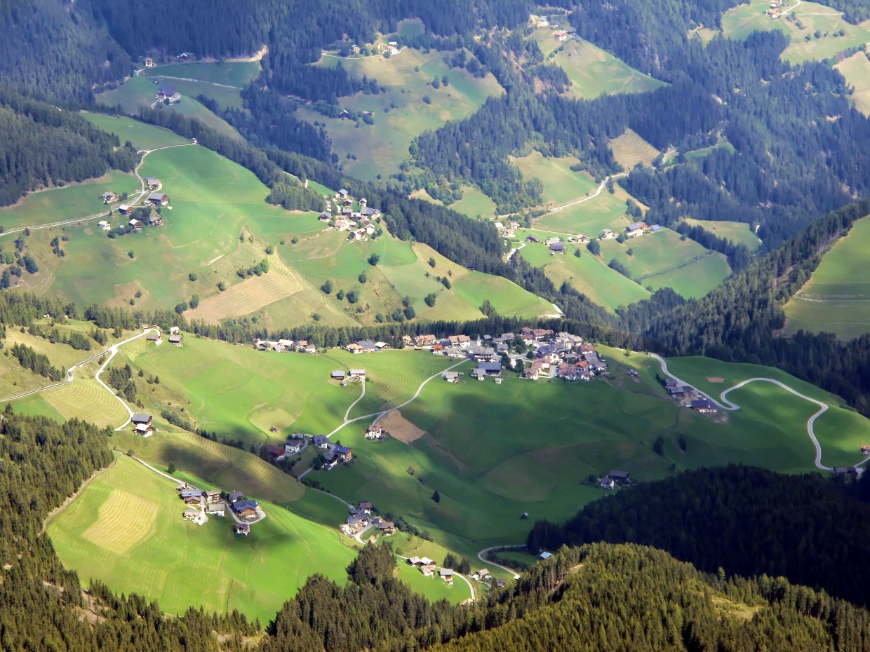 Village Untermoi, seen from Mountain Peitlerkofel